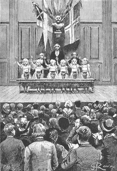 An illustration from the novel "The Lottery Ticket" by Jules Verne drawn by George Roux. It was also published in USA under the title Ticket No. "9672".